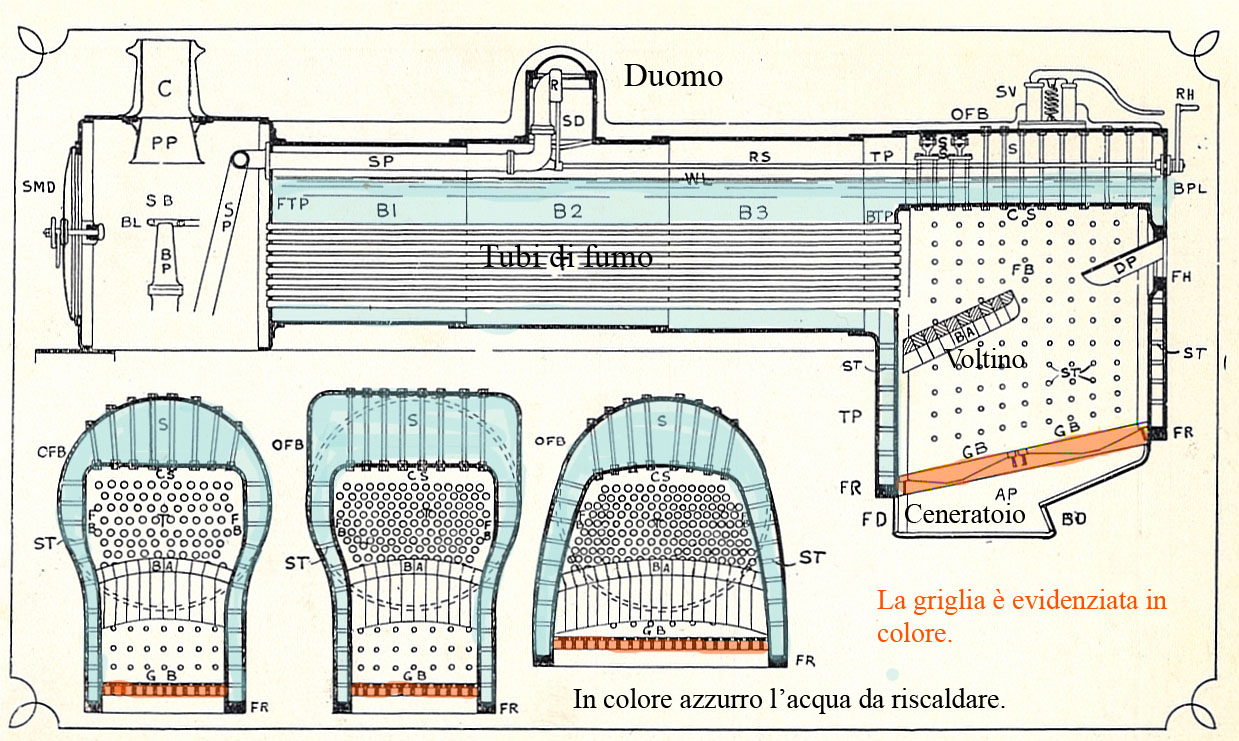 Locomotive boiler, sectioned view Diagram showing construction of a locomotive boiler. Also cross sections of round-topped, Belpaire and Wootten fireboxes. Note that this boiler is not superheated. KeyAPAsh PanB1Boiler Barrel (1st ring)B2Boiler Barrel (2nd ring)B3Boiler Barrel (3rd ring)BABrick ArchBDBack DamperBLBlowerBPBlast PipeBPLBack PlateBTPBack Tube PlateCChimneyCSCrown SheetDPDeflector PlateFBFirebox (inner)FDFront DamperFHFire HoleFRFoundation RingFTPFront Tube PlateGBGrate BarsOFBOutside FireboxPPPetticoat PipeRRegulatorRHRegulator HandleRSRegulator SpindleSStaysSBSmokeboxSDSteam DomeSMDSmokebox DoorSPSteam PipeSSSling StaysSTScrew StaysSVSafety ValvesTTubesTPThroat PlateWLWater Level